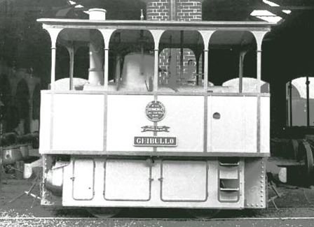 Cerimedo locomotive f.n. 272 Ghibullo, 1883